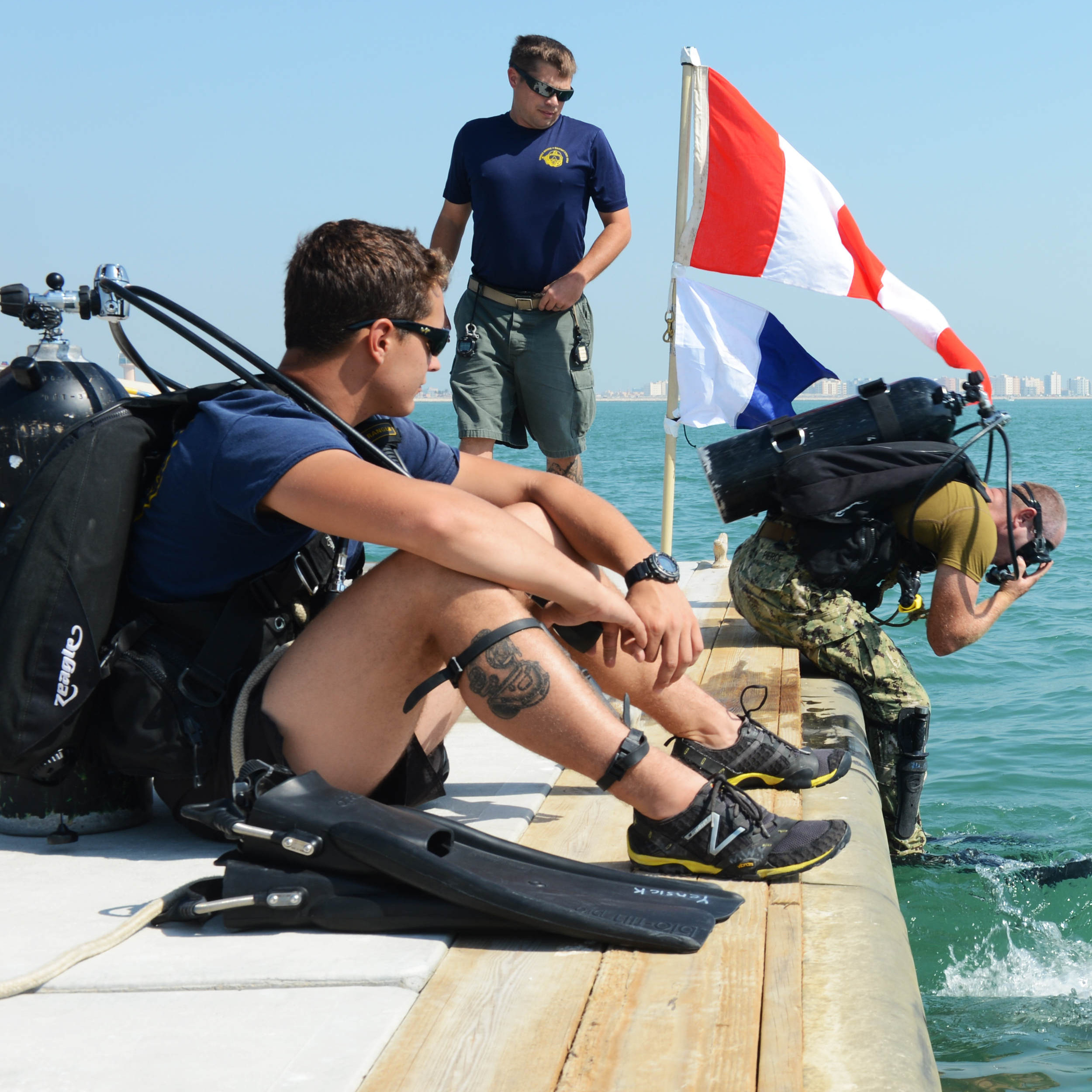 (Oct. 28, 2014) Navy Diver 3rd Class Marcus Yensick sits as stand by diver while Navy Diver 1st Class Overton Pierce and Navy Diver 3rd Class Trevor Cochran, assigned to Commander, Task Group (CTG) 56.1, enter the water during International Mine Countermeasures Exercise (IMCMEX). IMCMEX includes navies from 44 countries whose focus is to promote regional security through mine countermeasure operations in the U.S. 5th Fleet area of responsibility.